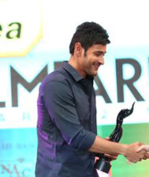 Mahesh Babu receiving the Filmfare Award for Best Actor – Telugu for his performance in the 2013 Telugu film Seethamma Vakitlo Sirimalle Chettu from actress Tamannaah at the 61st Filmfare Awards South ceremony held in Chennai at Nehru Stadium.